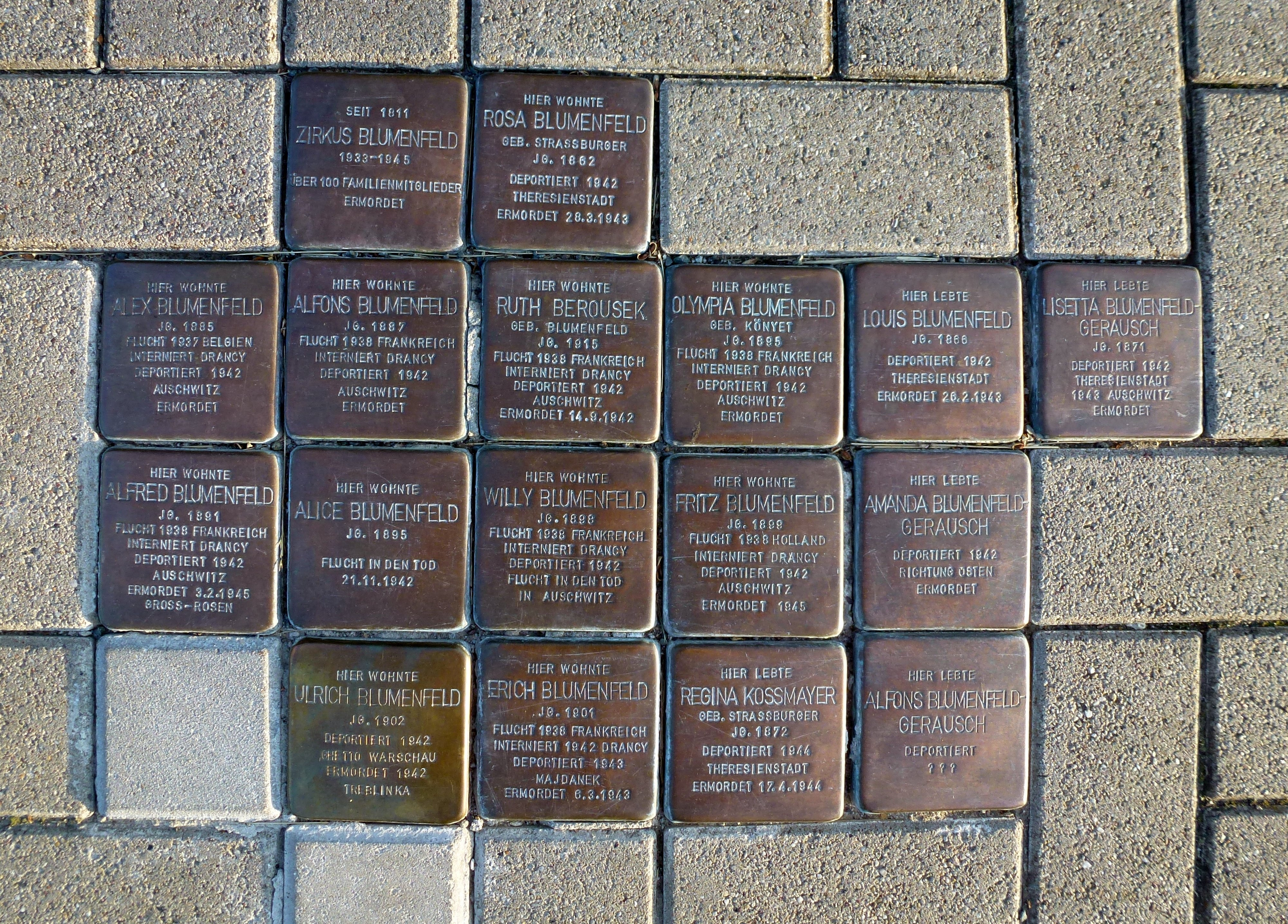 Stolpersteine for the circus family Blumenfeld, Walter-Rathenau-Straße